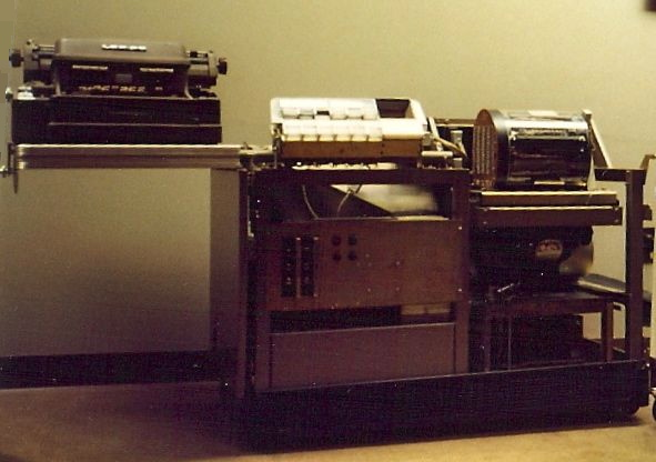 LGP-30 vacuum tube digital computer at Boston's Computer Museum, with cover removed. Scanned from a photo I took in late 1983.